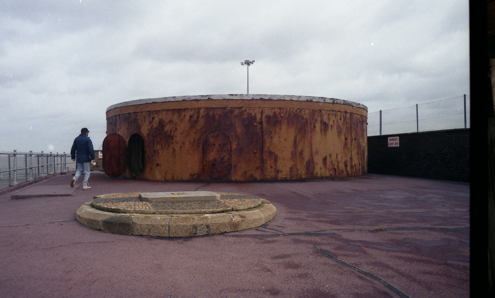 The Dover Turret at Dover constructed to hold two 80ton RML guns